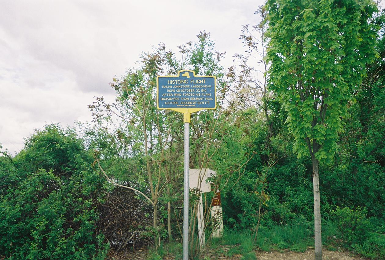 Plaque marking a historic flight by Ralph Jonstone that took place between Belmont Park, New York and Artist's Lake in Middle Island, New York on New York State Route 25. It reads: Historic flight Ralph Johnstone landed near here on October 27, 1910 after wind forced his plane backwards from Belmont Park Altitude record of 8471 ft. Town of Brookhaven